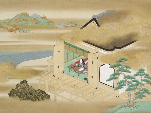 Murasaki Shikibu writing at Ishiyama-dera A later frontispiece affixed to a rebinding of an earlier dated album, Genji monogatari gajō, a set of 54 paired paintings and kotobagaki (Cat #1985.352)